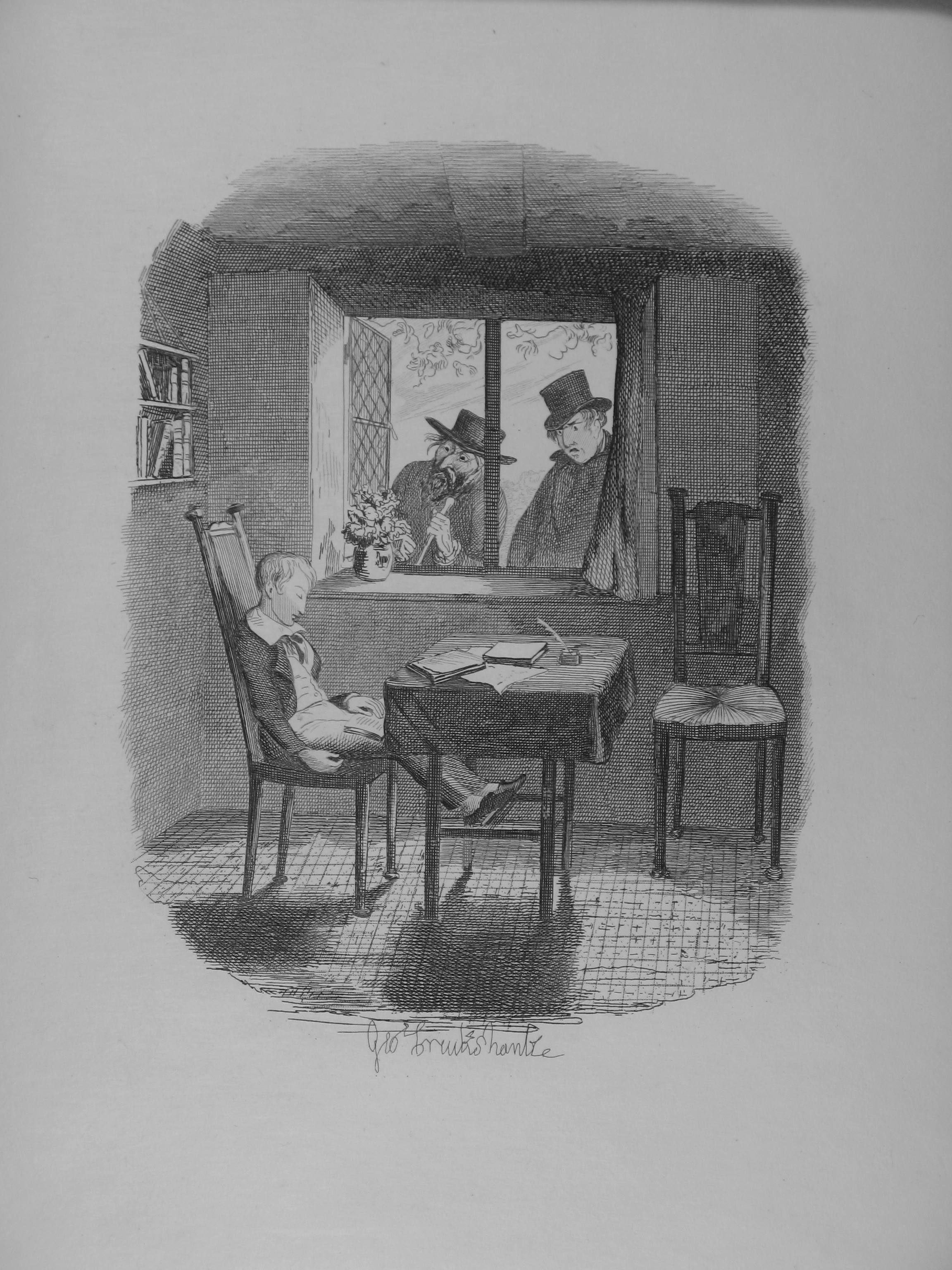 A photograph of an engraving in The Writings of Charles Dickens volume 4, Oliver Twist, titled "Monks and the Jew".